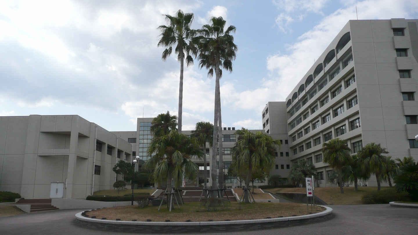 University of Miyazaki - Faculty of Education and Culture and Graduate School of Education.